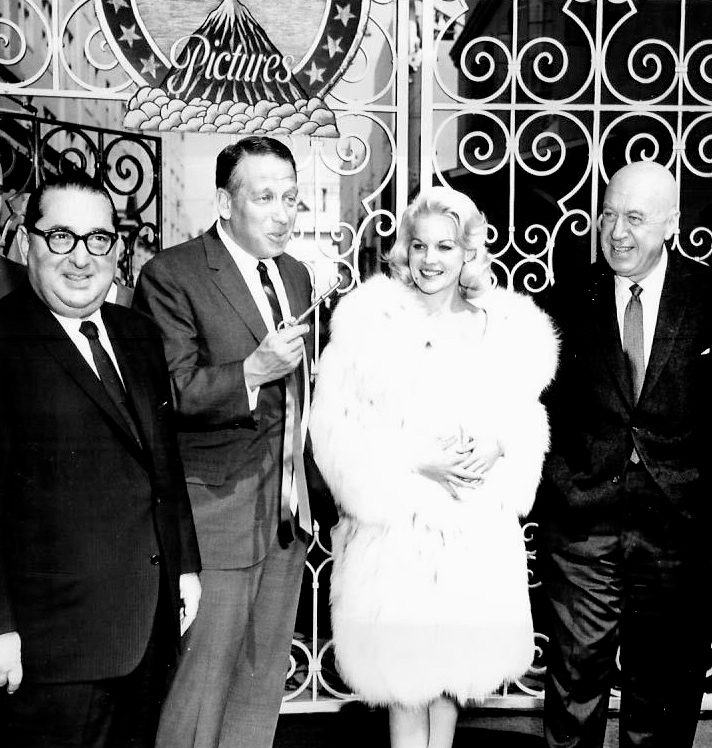 Joseph E. Levine with Howard W. Koch, Carroll Baker, and Otto Preminger at the premiere of Harlow, 1965